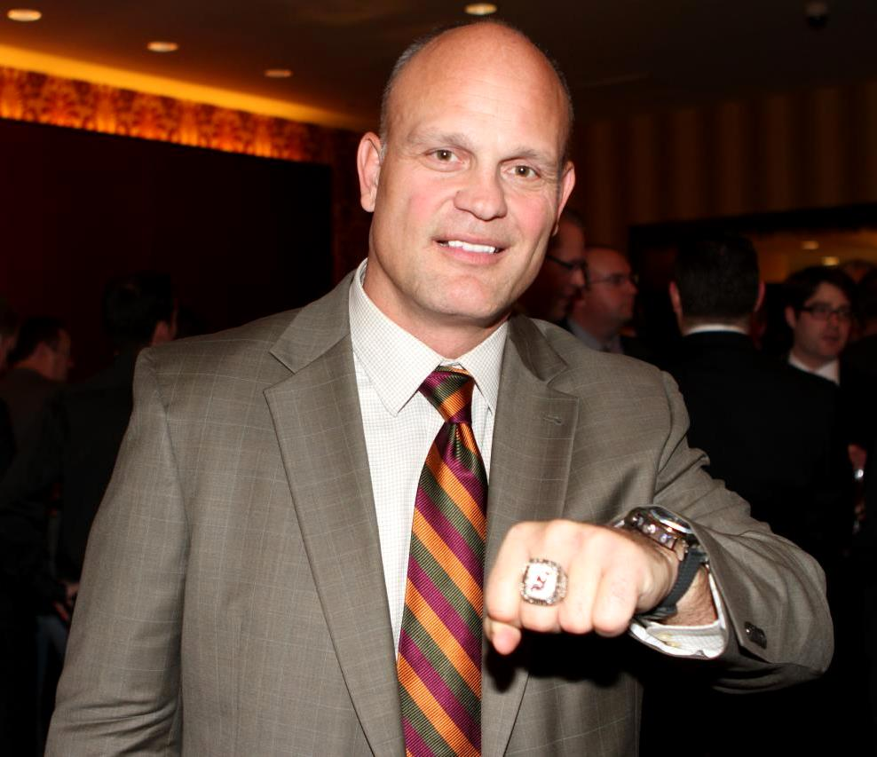 Ken Daneyko with the Stanley Cup ring on his finger, during Theodore Atlas Foundation's 15th Annual Teddy Dinner at the Hilton Garden Inn in Staten Island, New York City.